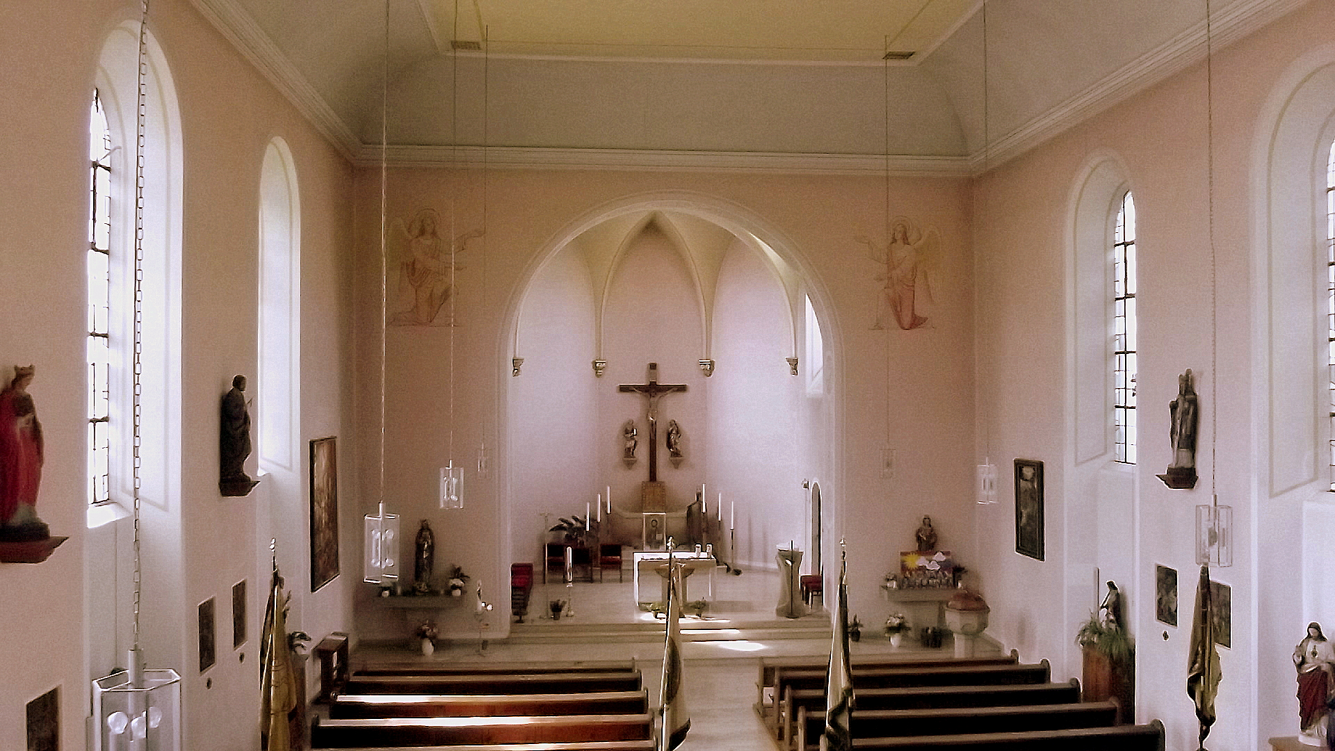 Interior of the roman catholic church in Besch, Saarland, Germany